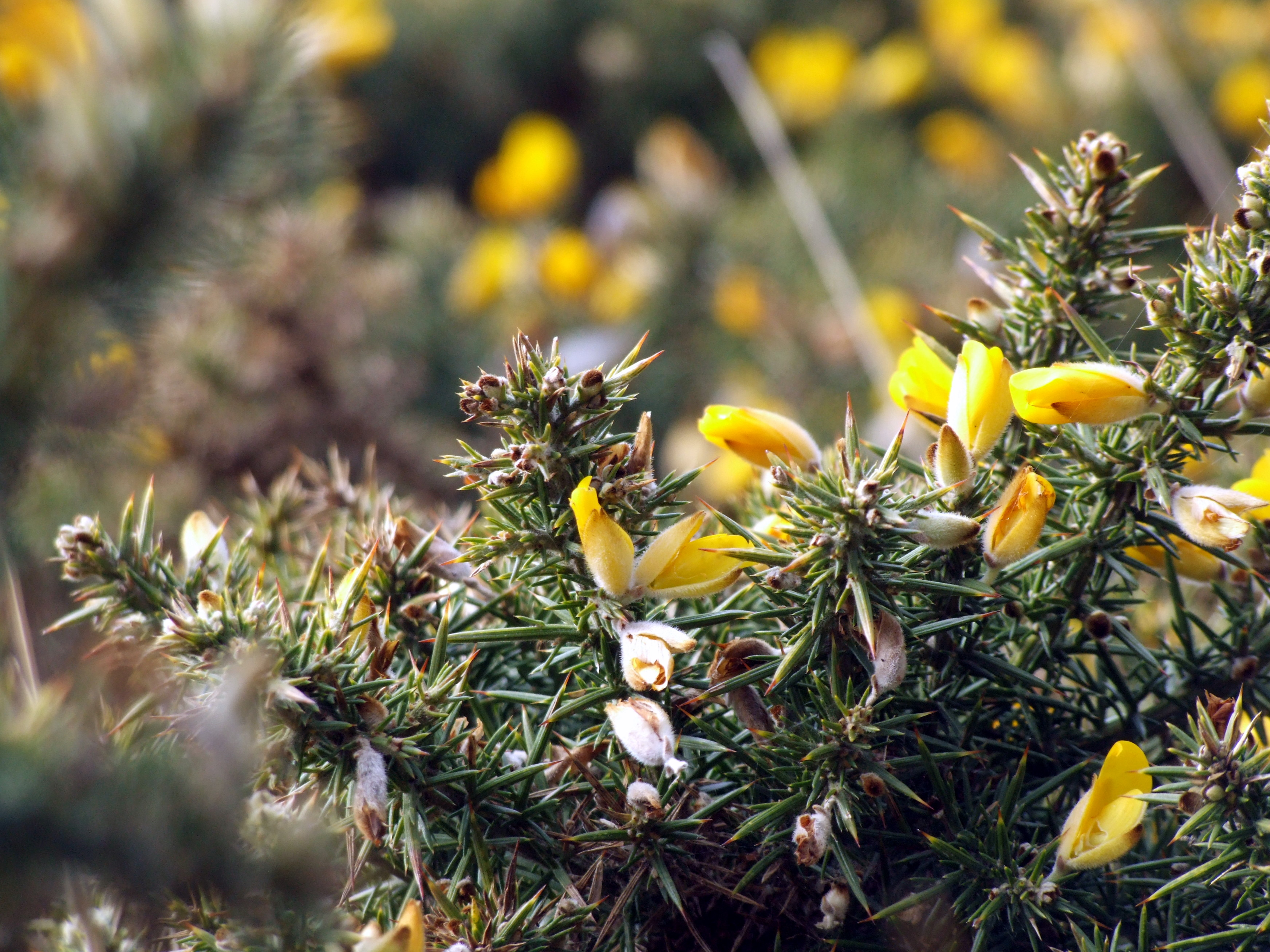 Durlston Country Park, Swanage, Dorset, United Kingdom